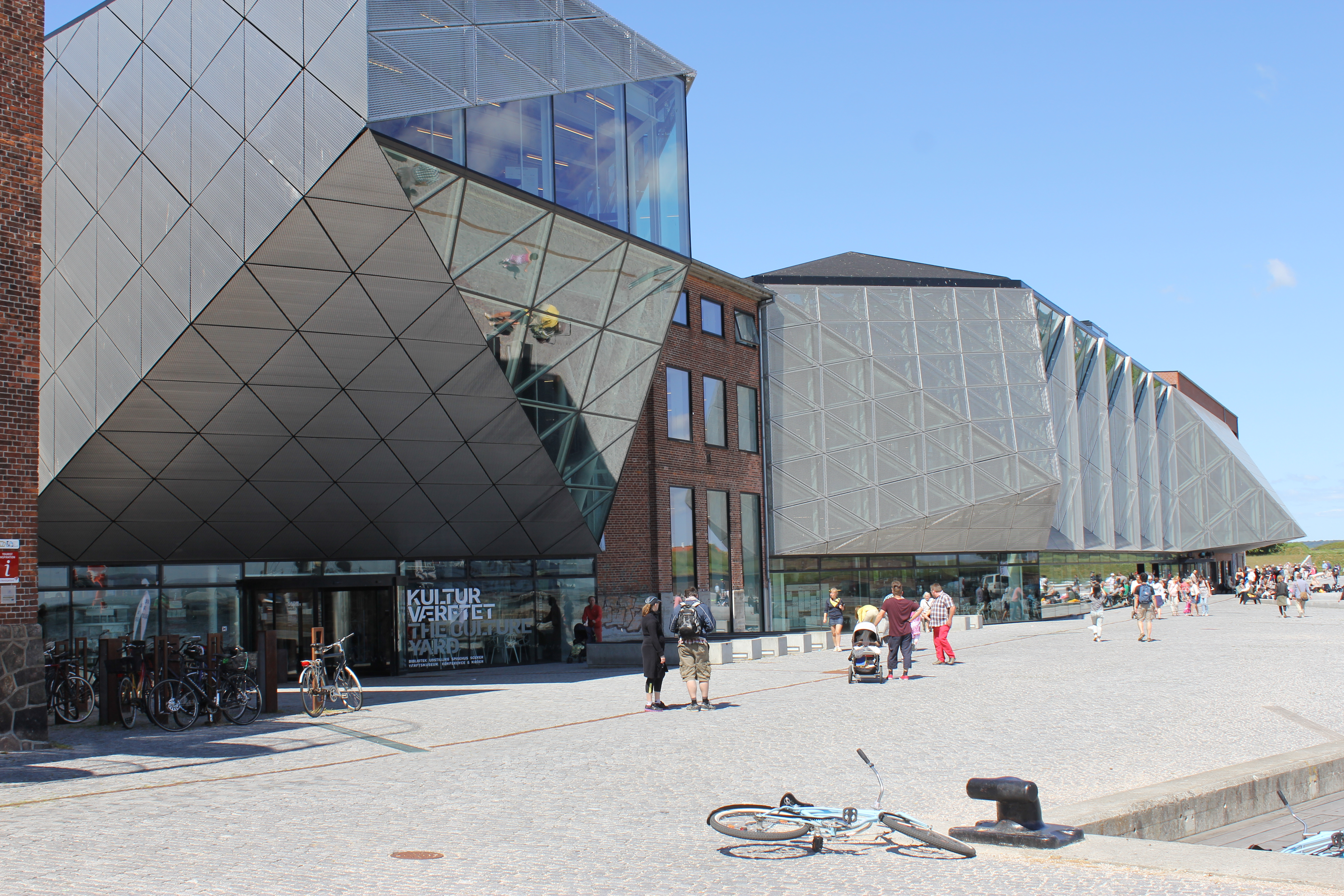 Kulturværftet's Exterior, displaying the front of Kulturværftet including the entrance.